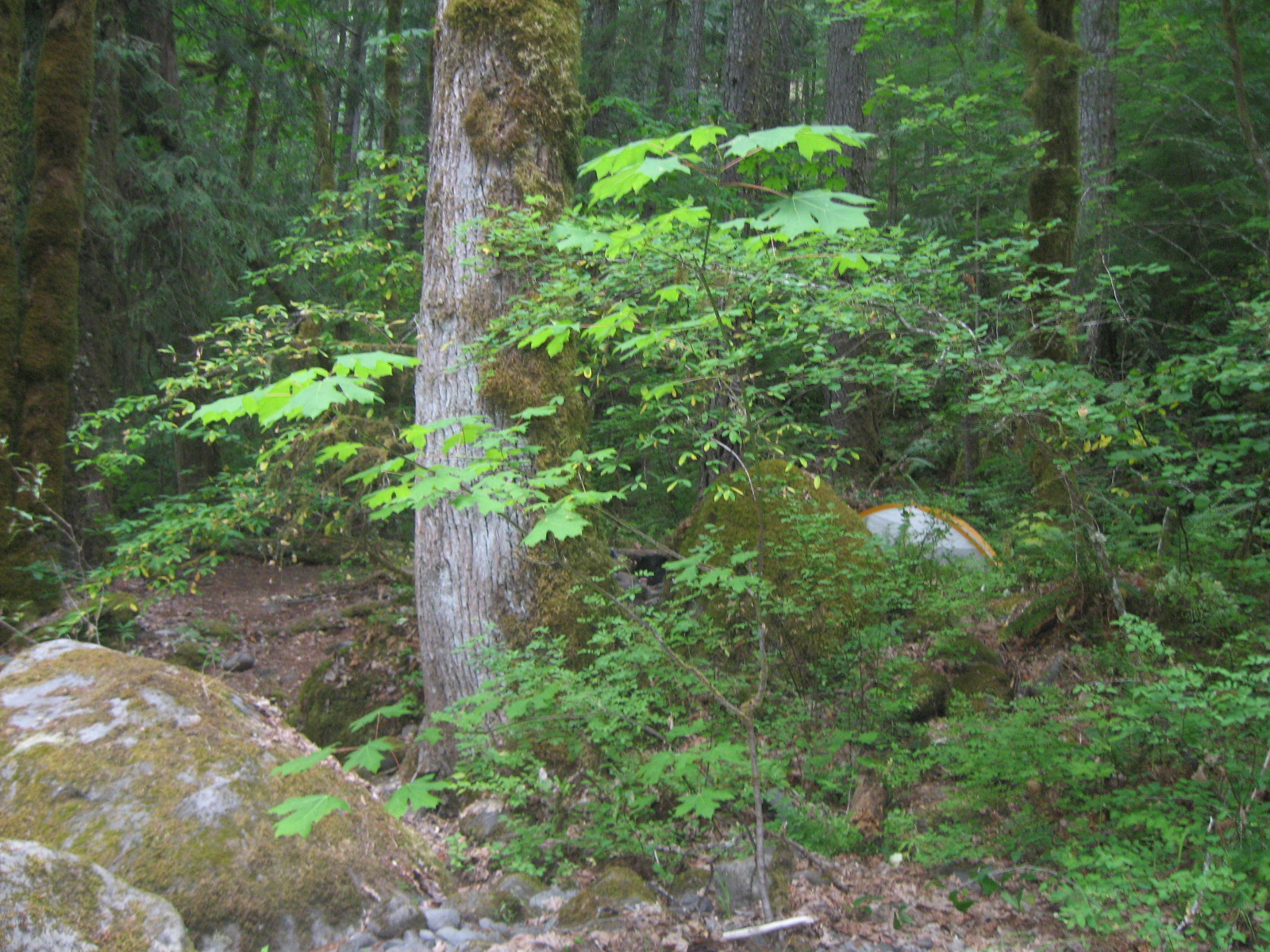 The forest by the French Pete Trail in the Three Sisters Wilderness in Oregon. A bigleaf maple sapling (Acer macrophyllum) is in front of a larger bigleaf tree, and Douglas fir (Pseudotsuga menziesii) and western red cedar (Thuja plicata) forest is in the background.